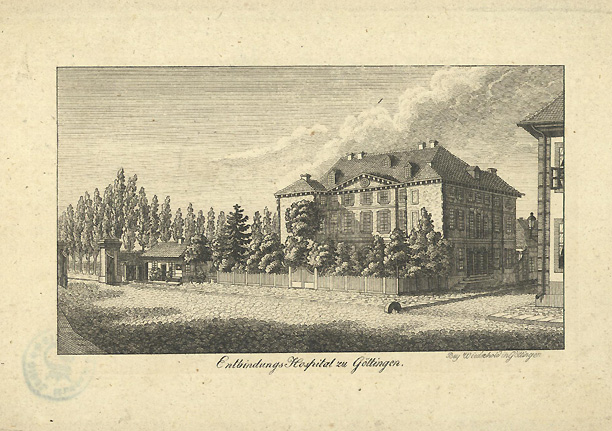 The 1785-1790 as " Royal Maternity Hospital " in Göttingen built Accouchierhauses on a student Journal .